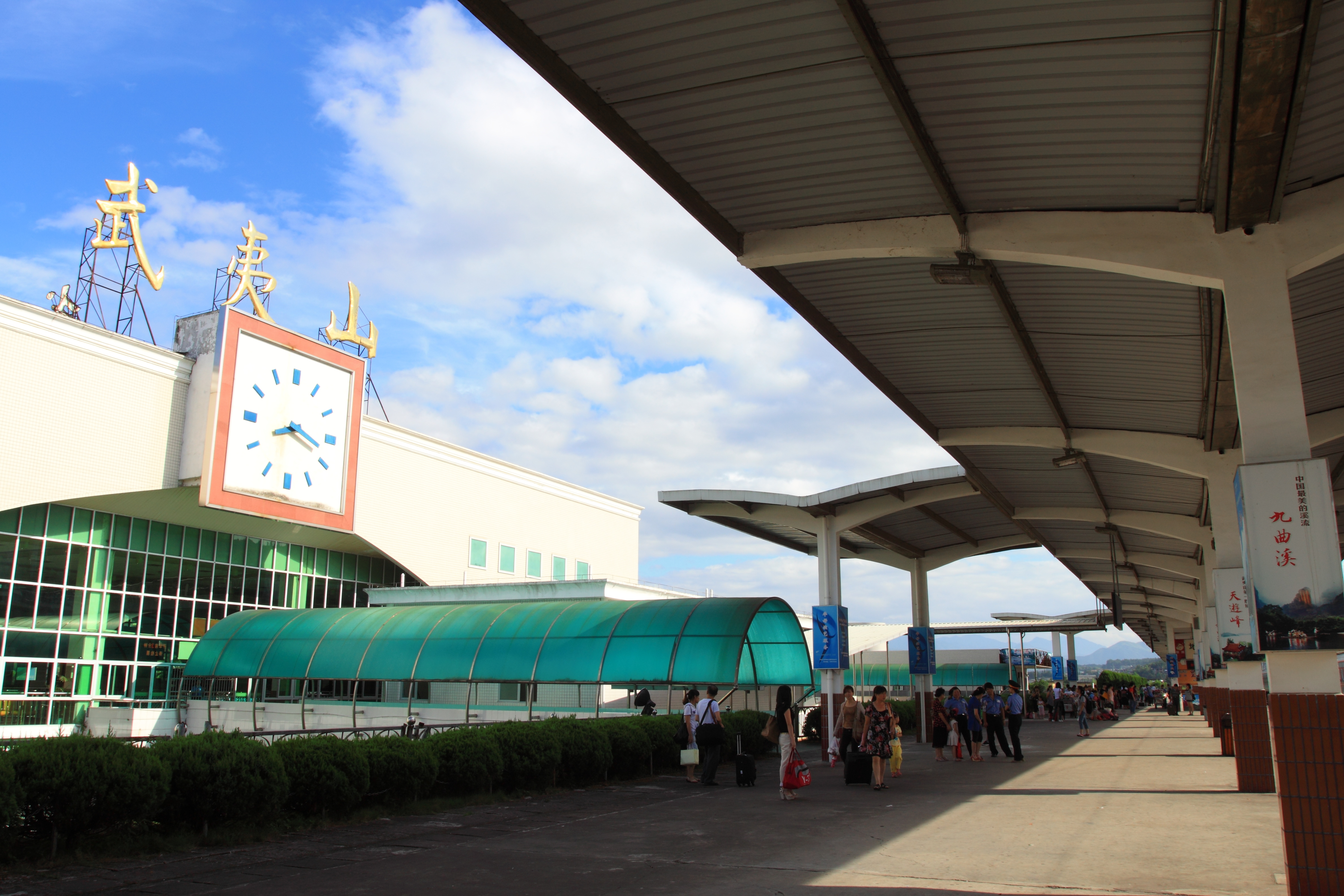 Wuyishan Railway Station, in Wuyishan, Fujian, China.